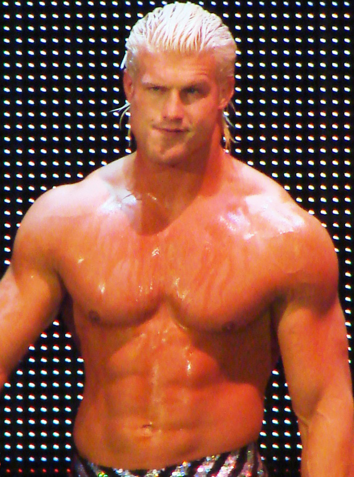 Dolph Ziggler at a WWE Smackdown/ECW live event. Bradley Center; Milwaukee, Wisconsin. Taken by myself. Cropped and brightened.